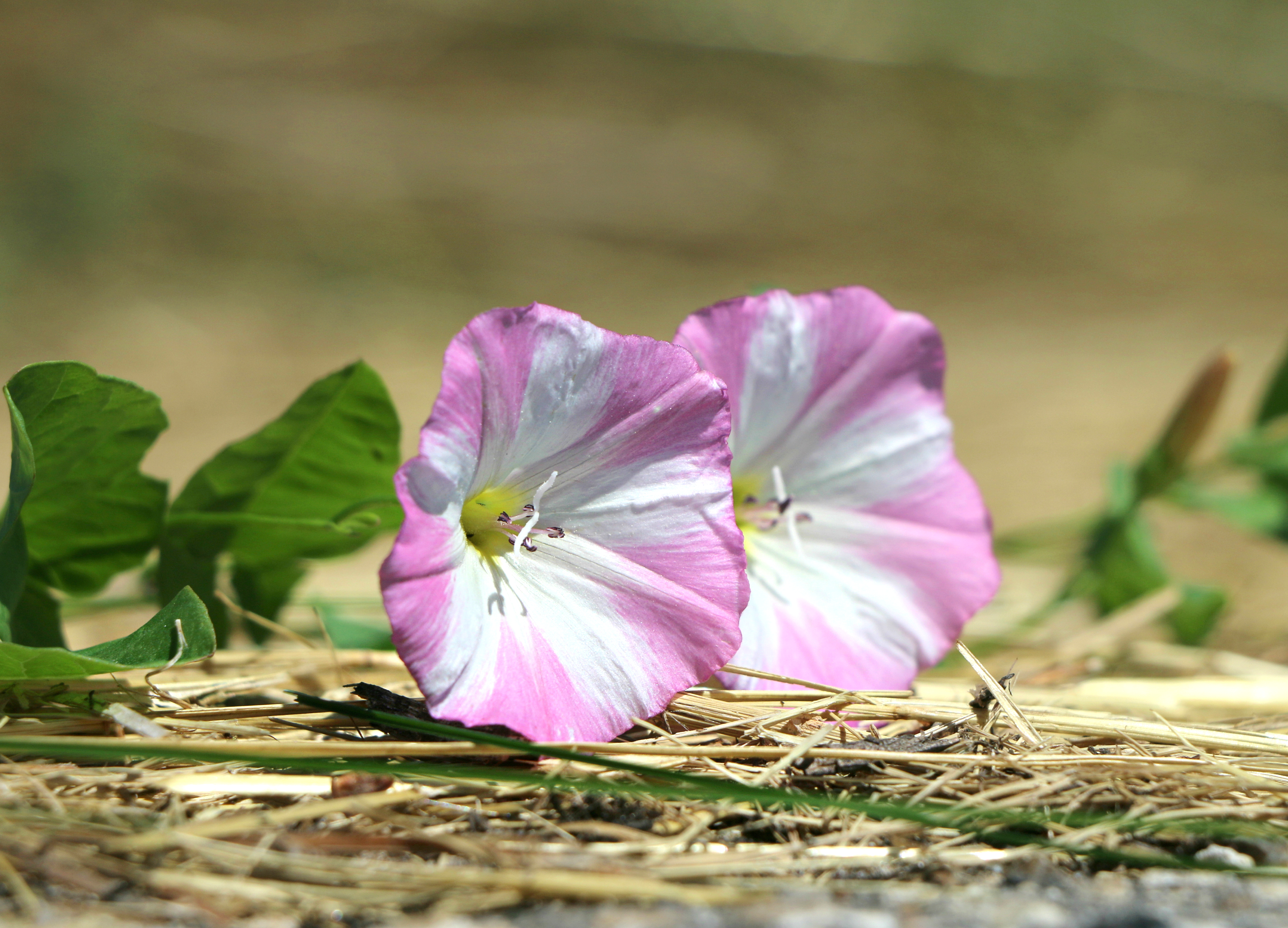 Field bindweed on the side of a road, Russia